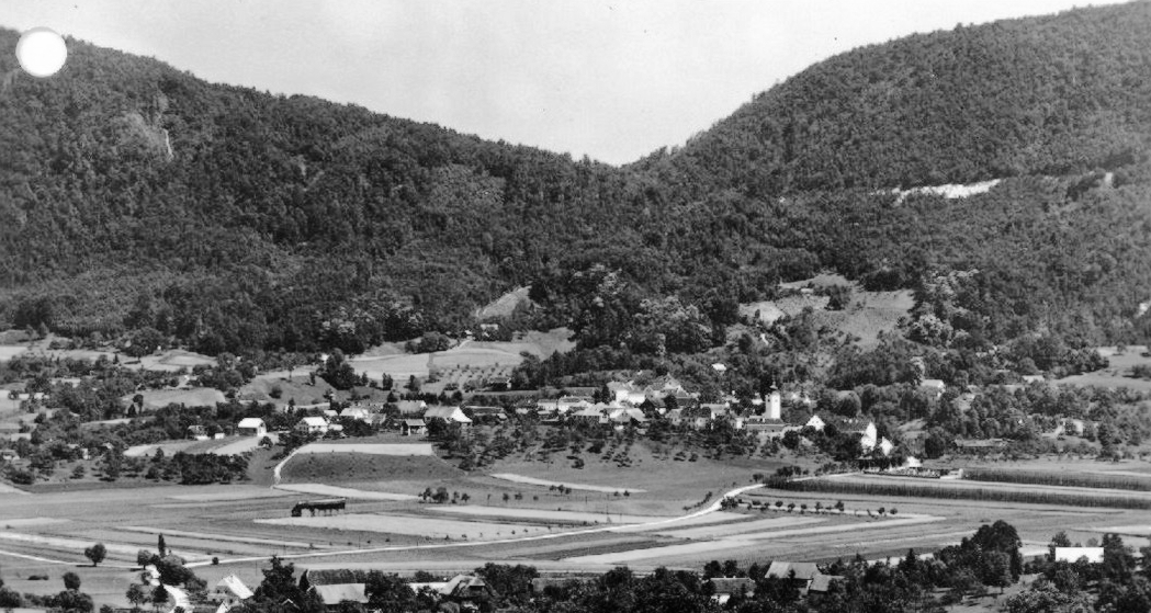 Postcard of Bistrica ob Sotli